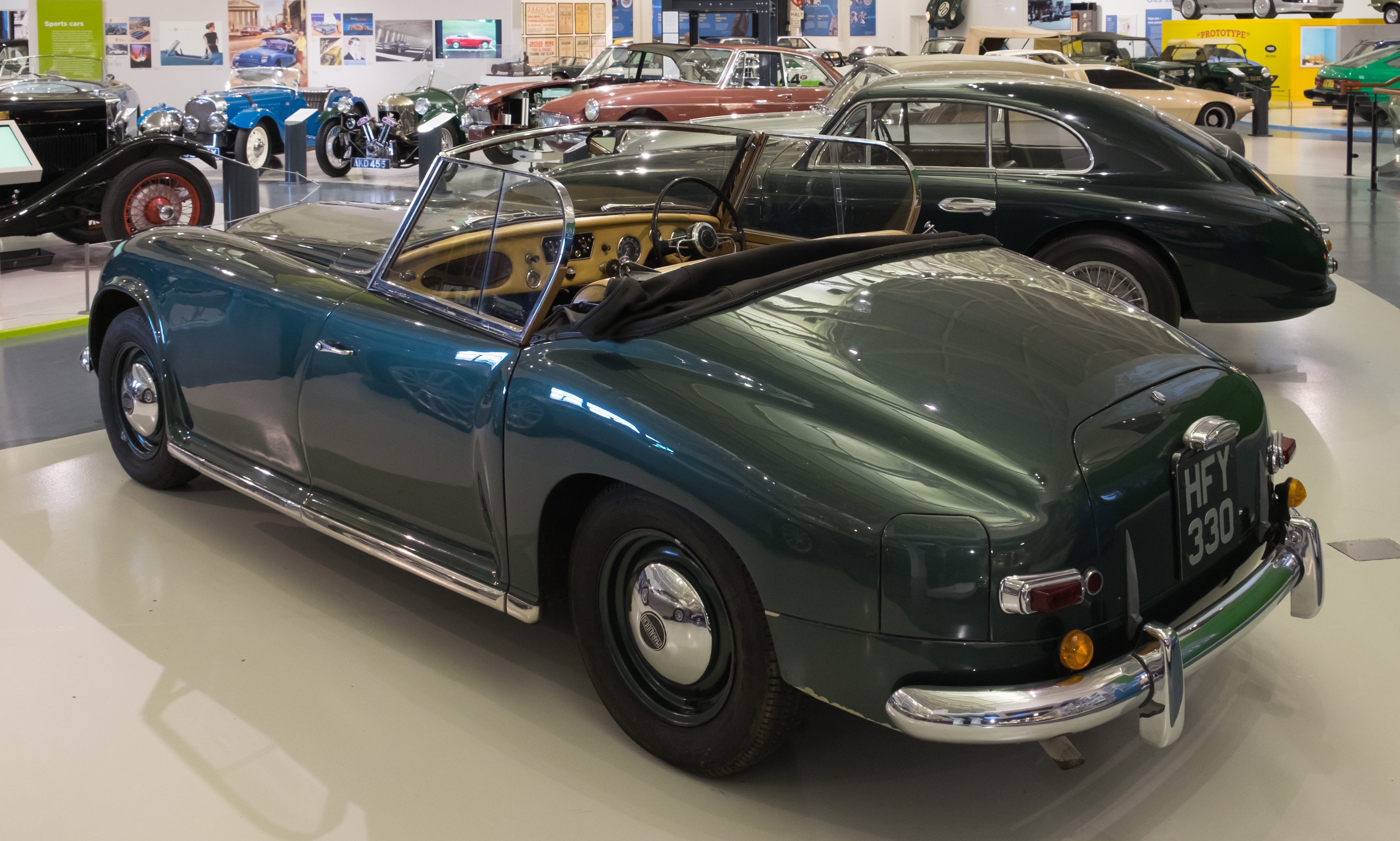 A 1951 Rover Marauder tourer. This car, with registration mark HFY 330, is now kept at the British Motor Museum, Gaydon, UK.